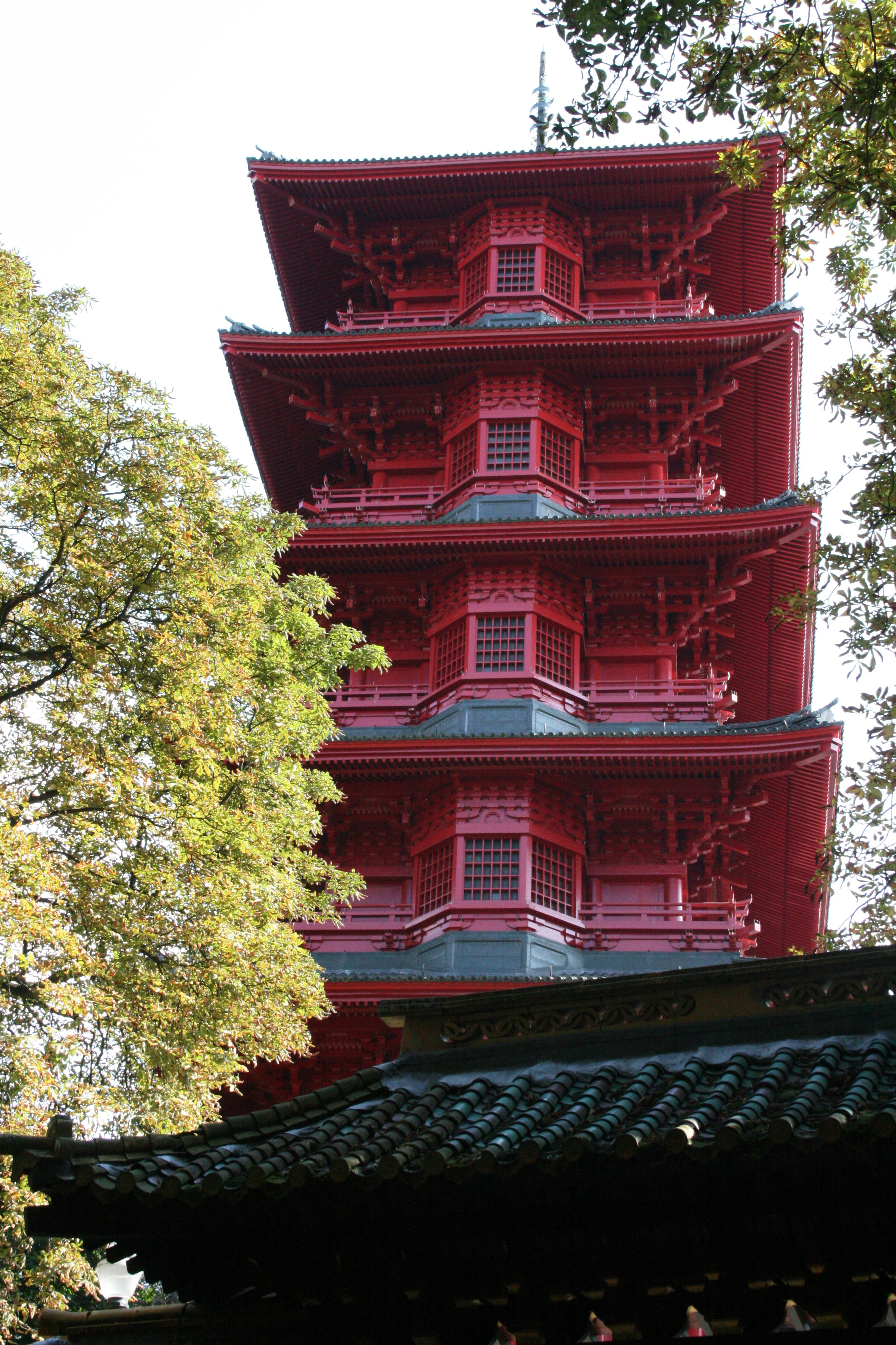 Museums of the Far East, avenue Van Praet, Laeken (Brussels). Japanese Tower